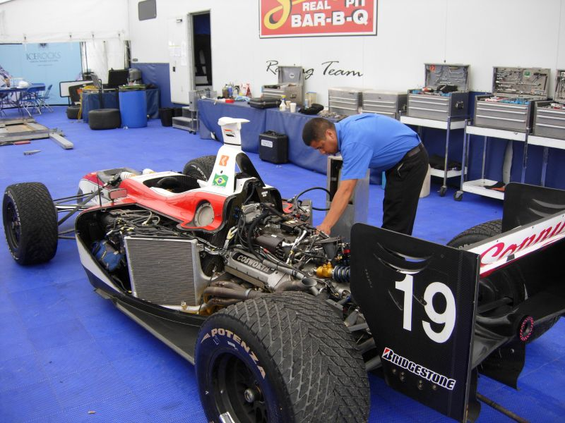 Bruno Junqueira Champ Car in the pits at the en:2007 Steelback Grand PrixThe Pits